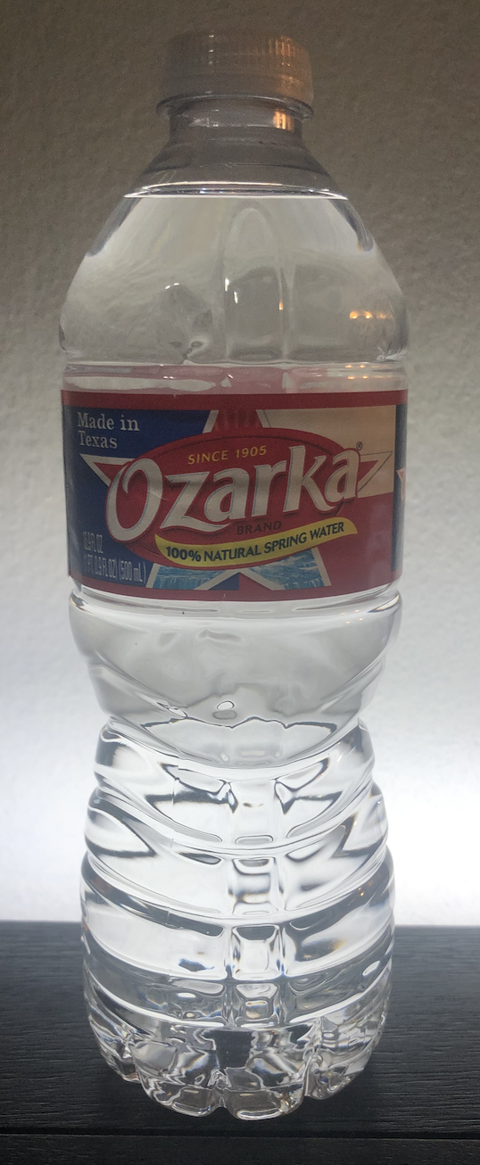 Image of Ozarka water bottle taken in 2019.